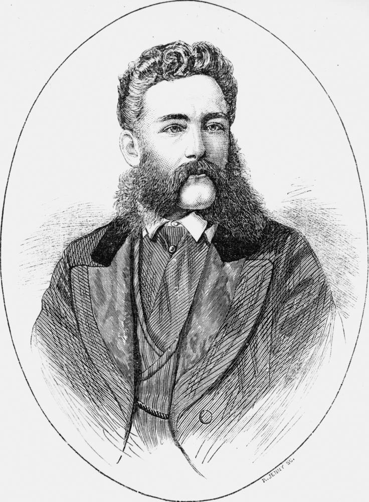 Sketch of William Robert Guilfoyle